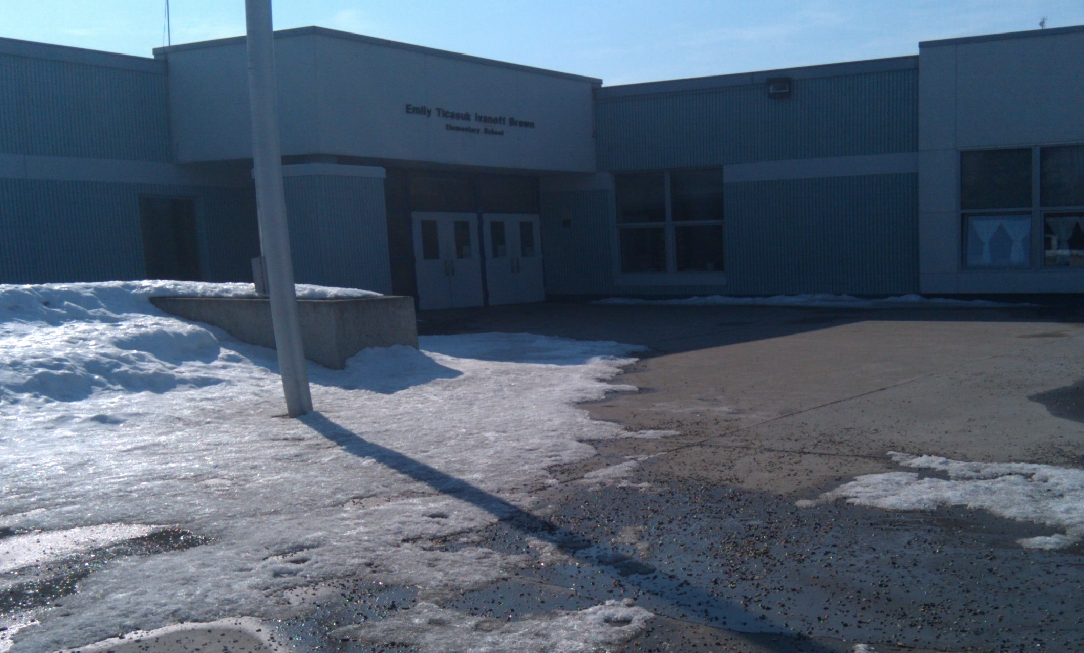 Front entrance to Ticasuk Brown Elementary School, a school in the Fairbanks North Star Borough School District. Located next to Lakloey Hill, in the suburban portion of the North Pole ZIP code market area (also known as the census-designated place called Badger), near the eastern gate of Fort Wainwright. Emily "Ticasuk" Ivanoff Brown (1904-1982) was an Alaska Native educator and writer.